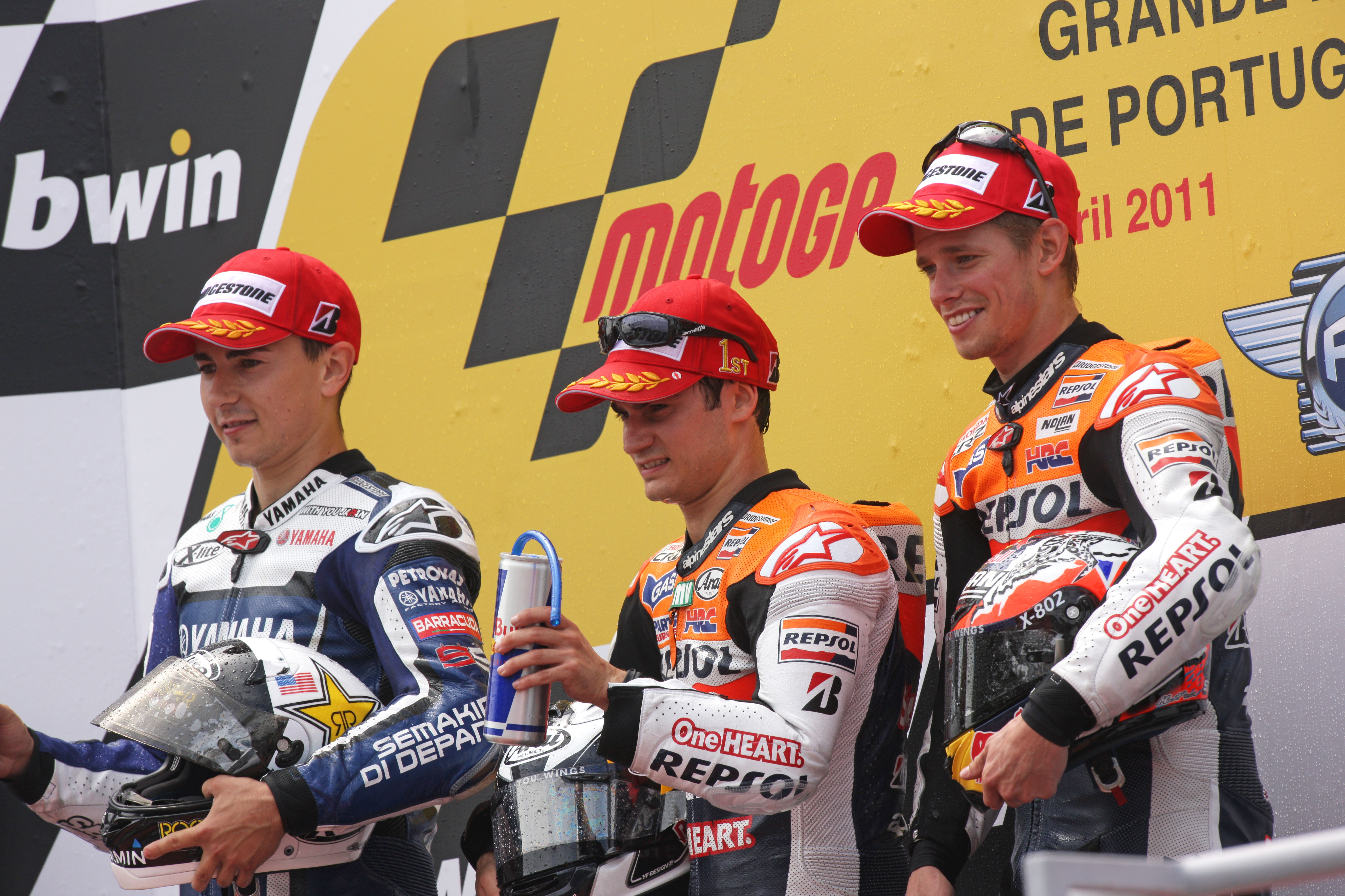 Jorge Lorenzo, Dani Pedrosa and Casey Stoner on the podium after finishing in second, first and third place at the 2011 Portuguese Grand Prix.